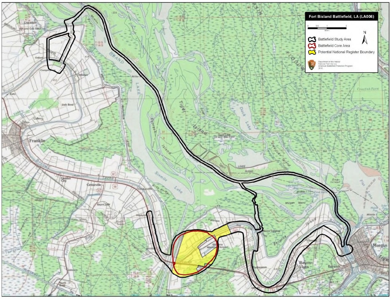 Map of battlefield core and study areas. The ABPP revised the Study Area to include the Confederate retreat and portions of the Atchafalaya River and the historic Grand Lake on which the Federal Navy transported BG Cuvier Grover’s Division to Irish Bend.